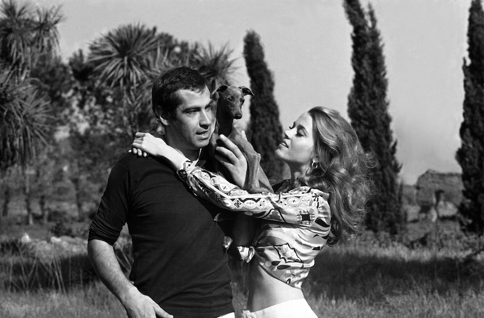 French director Roger Vadim and actress Jane Fonda playing with their dog in their villa on the Appian Way outside Rome, during the filming of Barbarella.